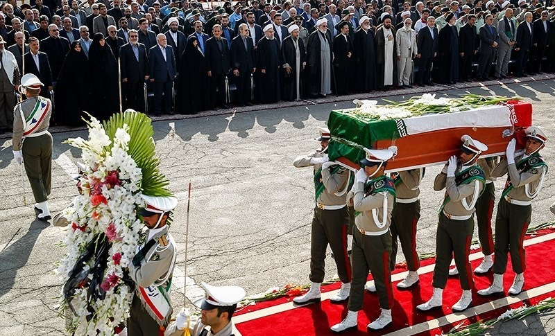 Return of 2015 Mina stamped deceased, Mehrabad Airport